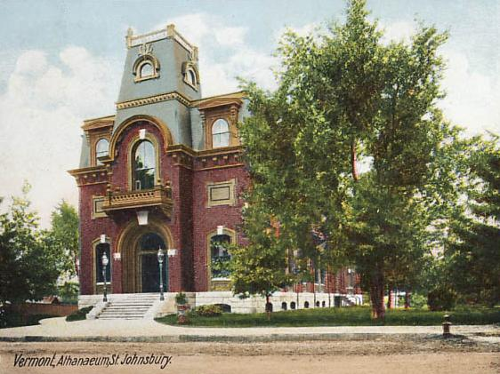 St. Johnsbury Athenæum, St. Johnsbury, Vermont. Designed by New York architect John Davis Hatch III, it was built in 1871.